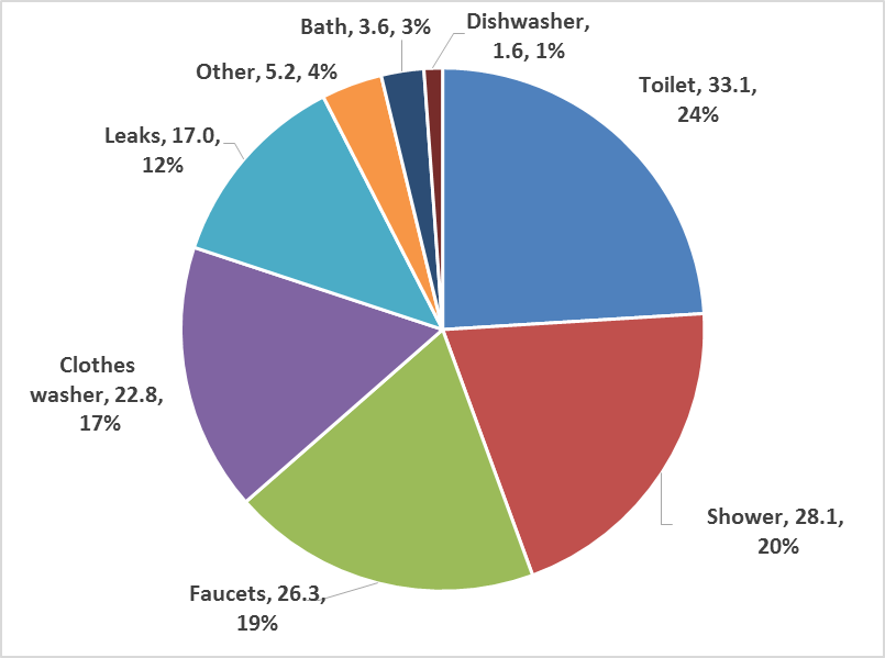 Corrected pie chart with end uses of water